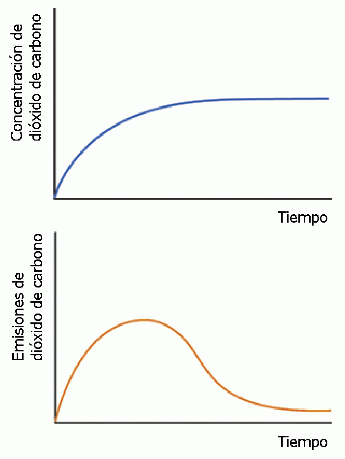 Version in Spanish of: The image shows how stabilizing the atmospheric concentration of carbon dioxide at a constant level would require carbon dioxide emissions to be effectively eliminated. The graph on the bottom shows a substantial reduction in carbon dioxide emissions from their present level over time. Carbon dioxide emissions peak then decline to a fraction of their current level. The graph on the top shows how this reduction would lead to the atmospheric concentration of carbon dioxide being stabilized at a constant level.